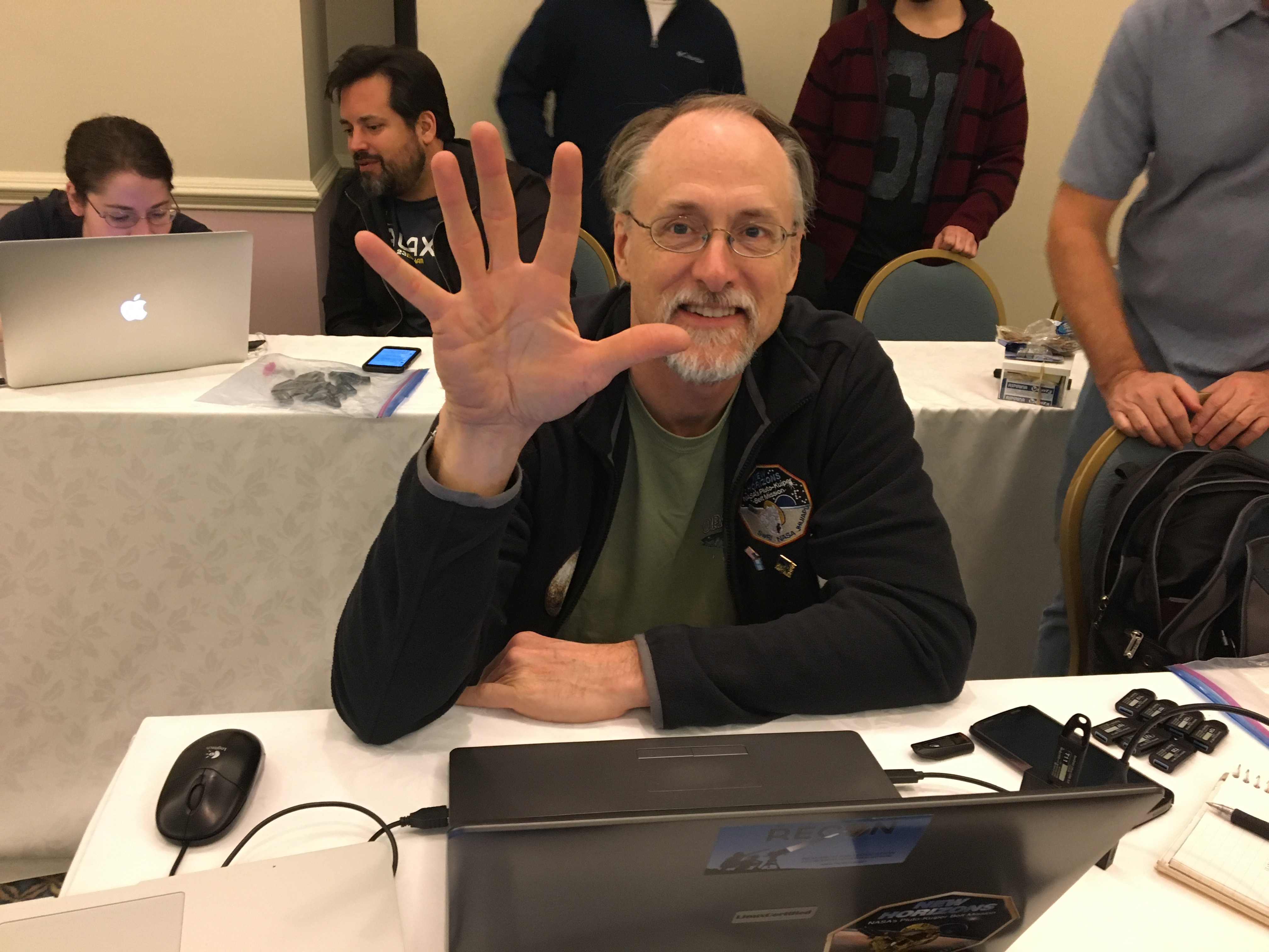 Marc Buie, New Horizons occultation campaign lead, holds up five fingers to represent the number of mobile telescopes in Argentina initially thought to have detected the fleeting shadow of 2014 MU69. The New Horizons spacecraft will fly by the ancient Kuiper Belt object on Jan. 1, 2019.